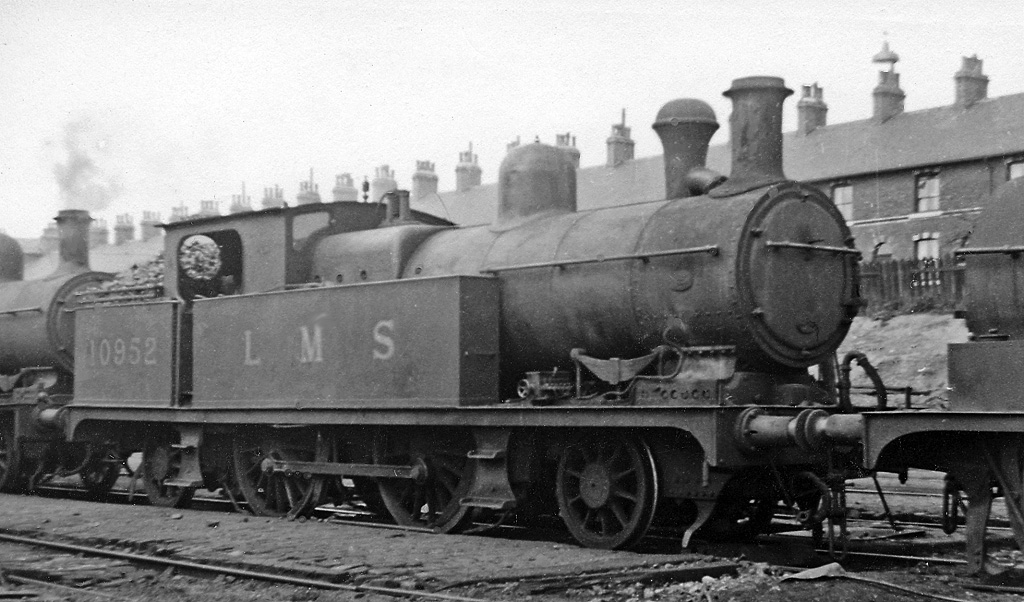 Low Moor Locomotive Shed: a Lancashire & Yorkshire 3P 2-4-2T. Along with other L&Y engines at Low Moor Depot in May 1947 (see SE1628 : Low Moor Locomotive Shed: a Lancashire & Yorkshire 2-4-2T) was this larger 3P 2-4-2T, No. 10952.